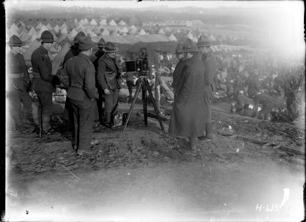 The camera of Henry Armytage Sanders in WWI.